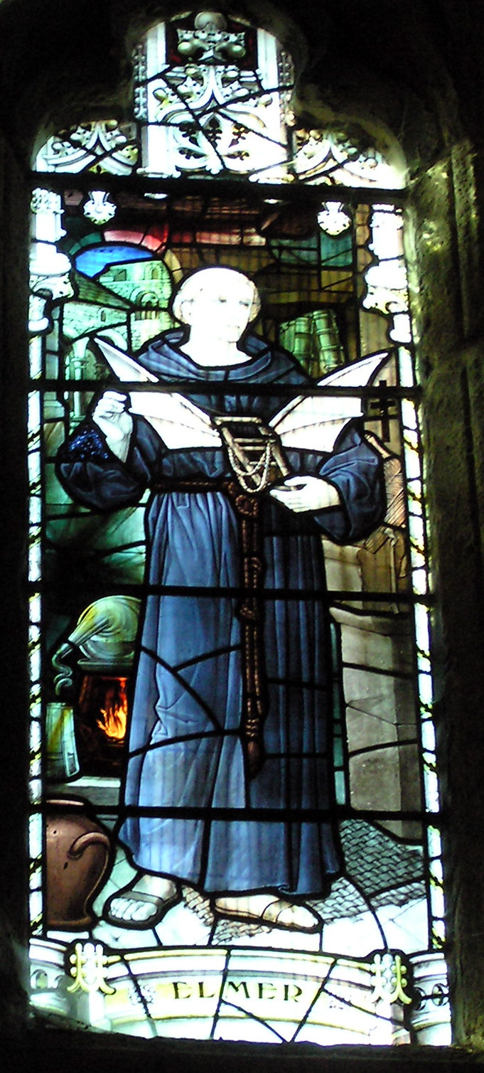 Stained glass window showing Eilmer, installed in Malmesbury Abbey (Malmesbury, England) in 1920 in memory of Rev. Canon C. D. H. McMillan who was Vicar of Malmesbury from 1907 to 1919. Taken by Adrian Pingstone in February 2005 and released to the public domain.